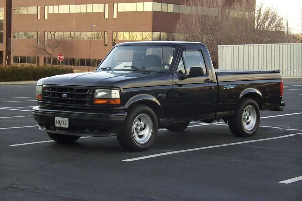 1993 Ford Lightning. Photo taken by submitter, released into public domain